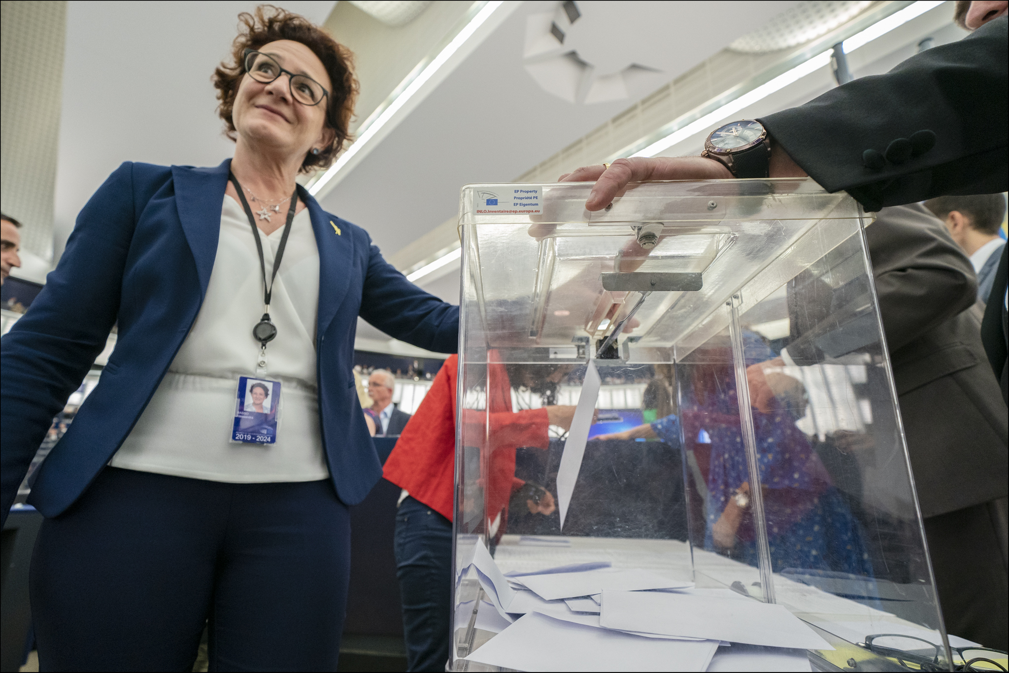 With 383 votes in favour, the European Parliament elected Ursula von der Leyen President of the next European Commission in a secret ballot on 16 July. She is set to take office on 1 November 2019 for a five-year term. There were 733 votes cast, one of which was not valid. 383 members voted in favour, 327 against, and 22 abstained. Parliament currently comprises 747 MEPs as per the official notifications received by member state authorities, so the threshold needed to be elected was 374 votes, i.e. more than 50% of its component members. President Sassoli formally announced the requisite number before the results were revealed in plenary. The vote was held by secret paper ballot. Read more: This photo is free to use under Creative Commons license CC-BY-4.0 and must be credited: "CC-BY-4.0: © European Union 2019 – Source: EP". No model release form if applicable. For bigger HR files please contact: webcom-flickr(AT)